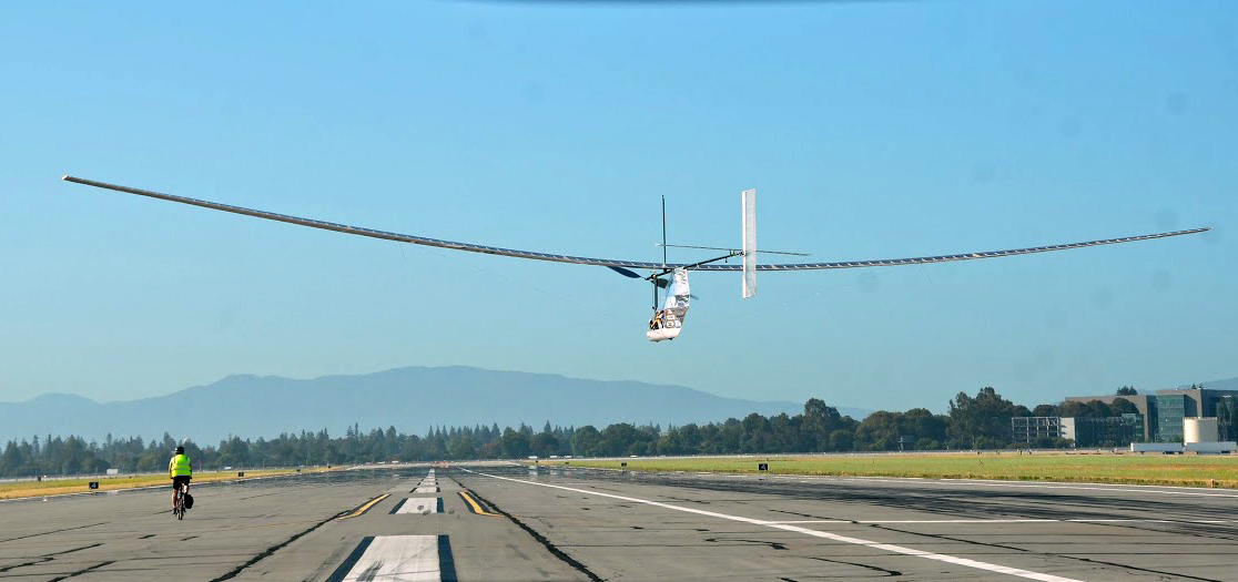 Craig Robinson during his 1.3 km flight of the DaSH Human Powered Airplane at Moffett Federal Airfield, Mountain View CA